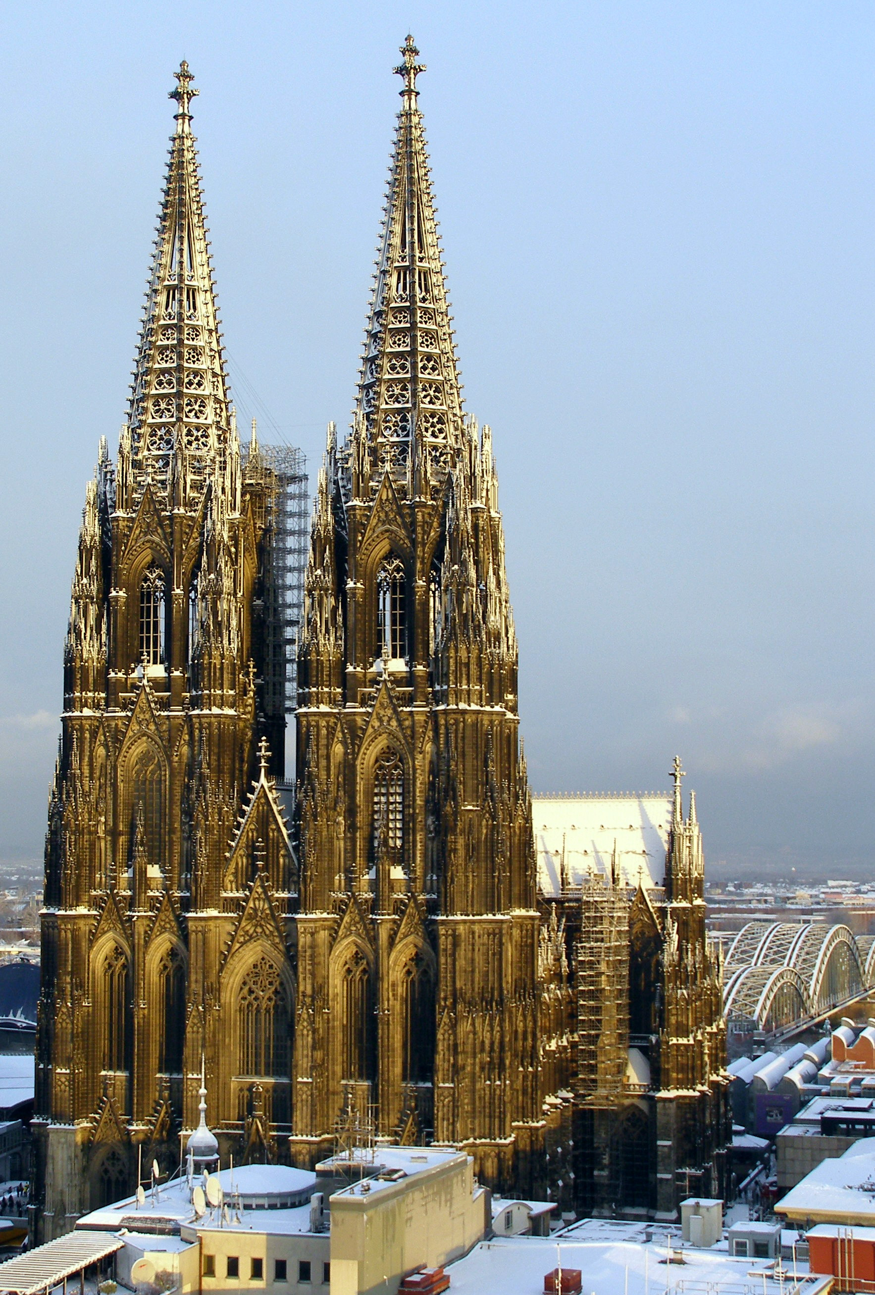 Cologne Cathedral, Rayonnant Gothic architecture, Cologne, Germany